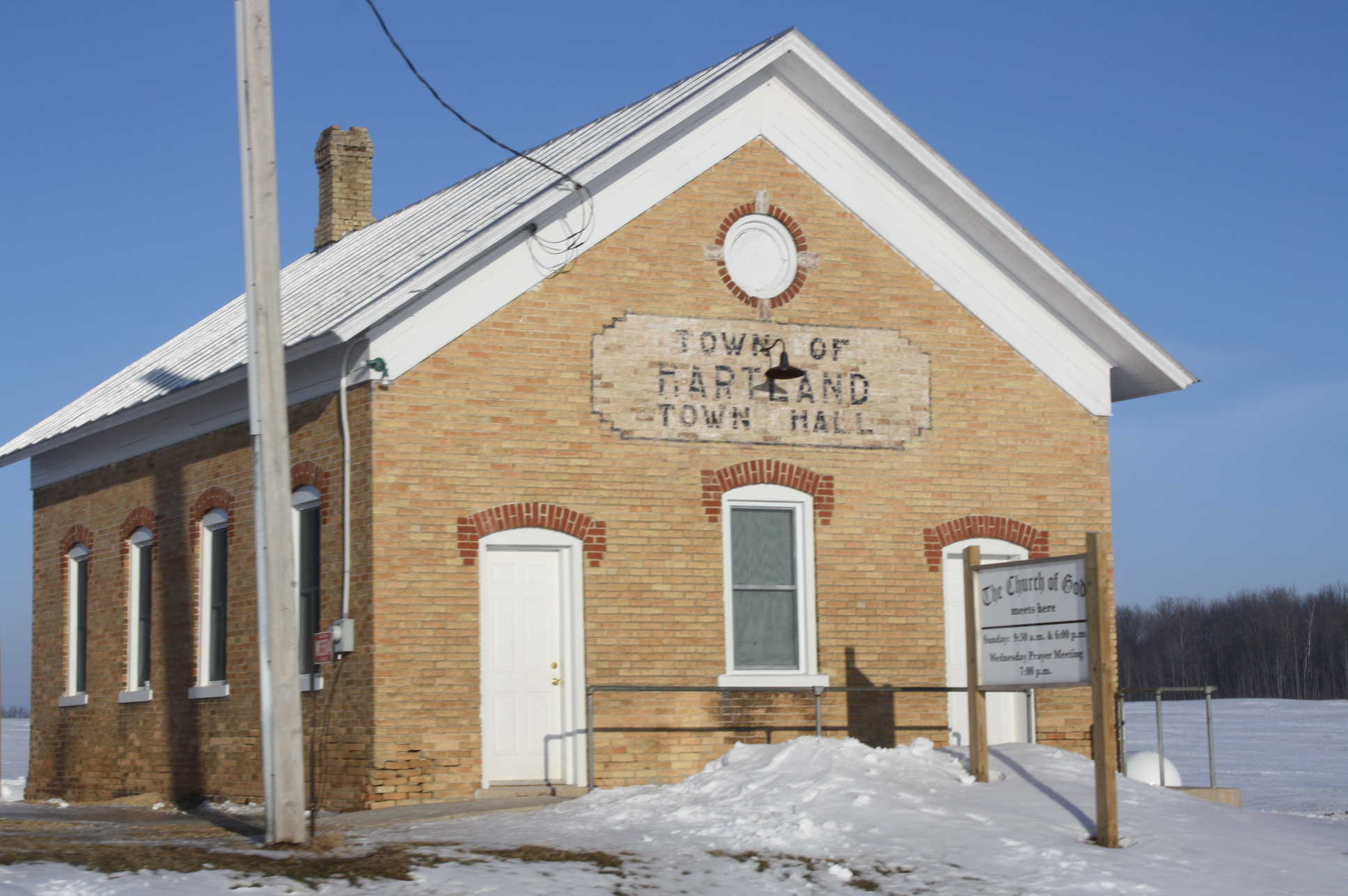 An earlier town hall for Hartland, Shawano County, Wisconsin along the former route for Wisconsin Highway 29.